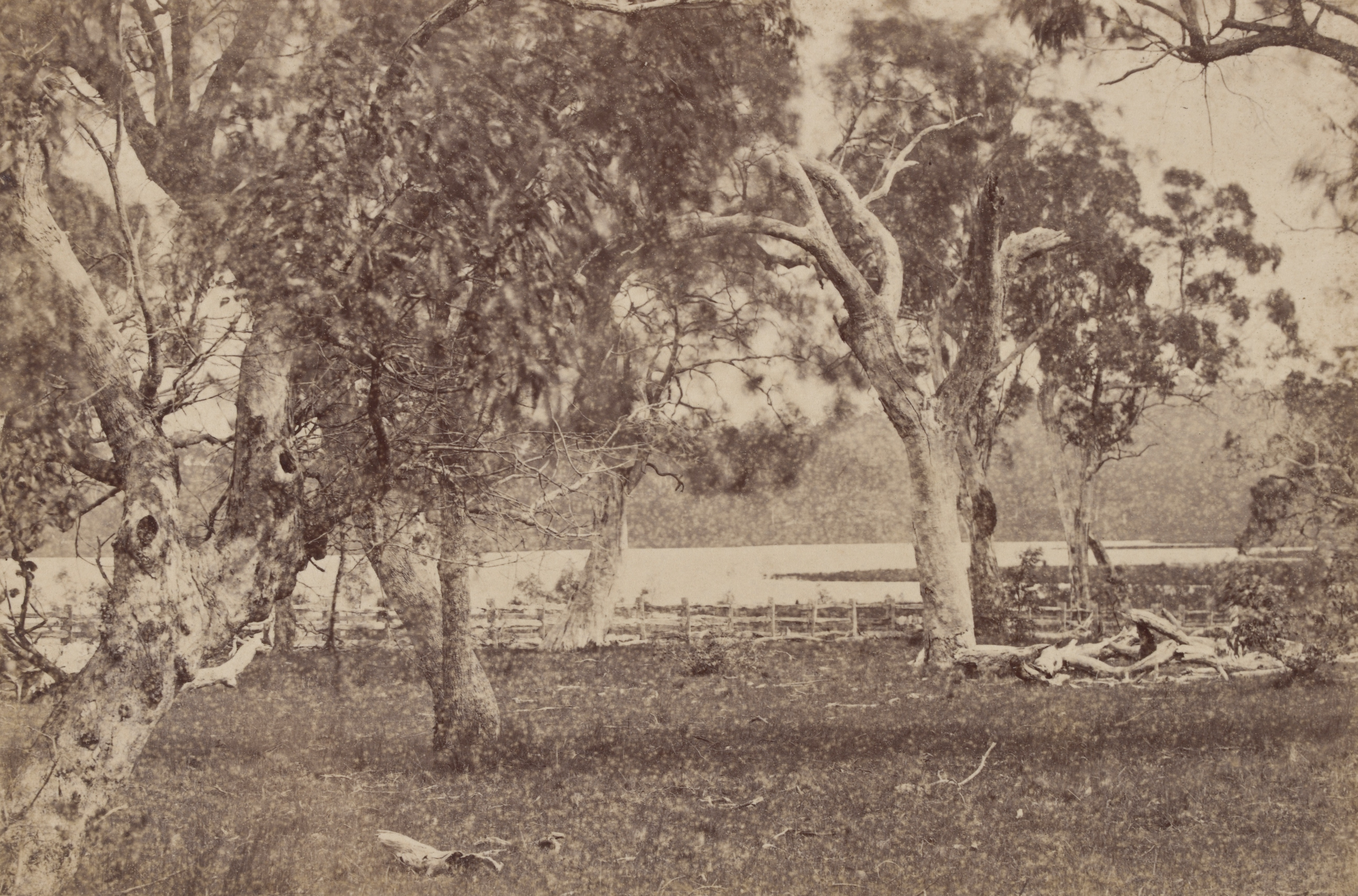 Photograph of paddock with gum trees in foreground and behind, a reservoir